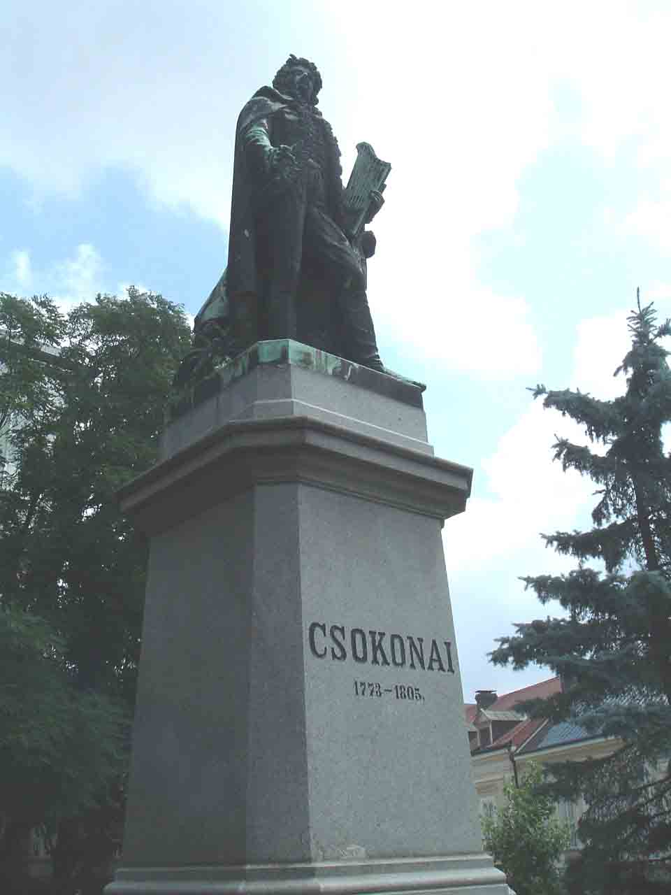 The Csokonai statue in Debrecen, Hungary